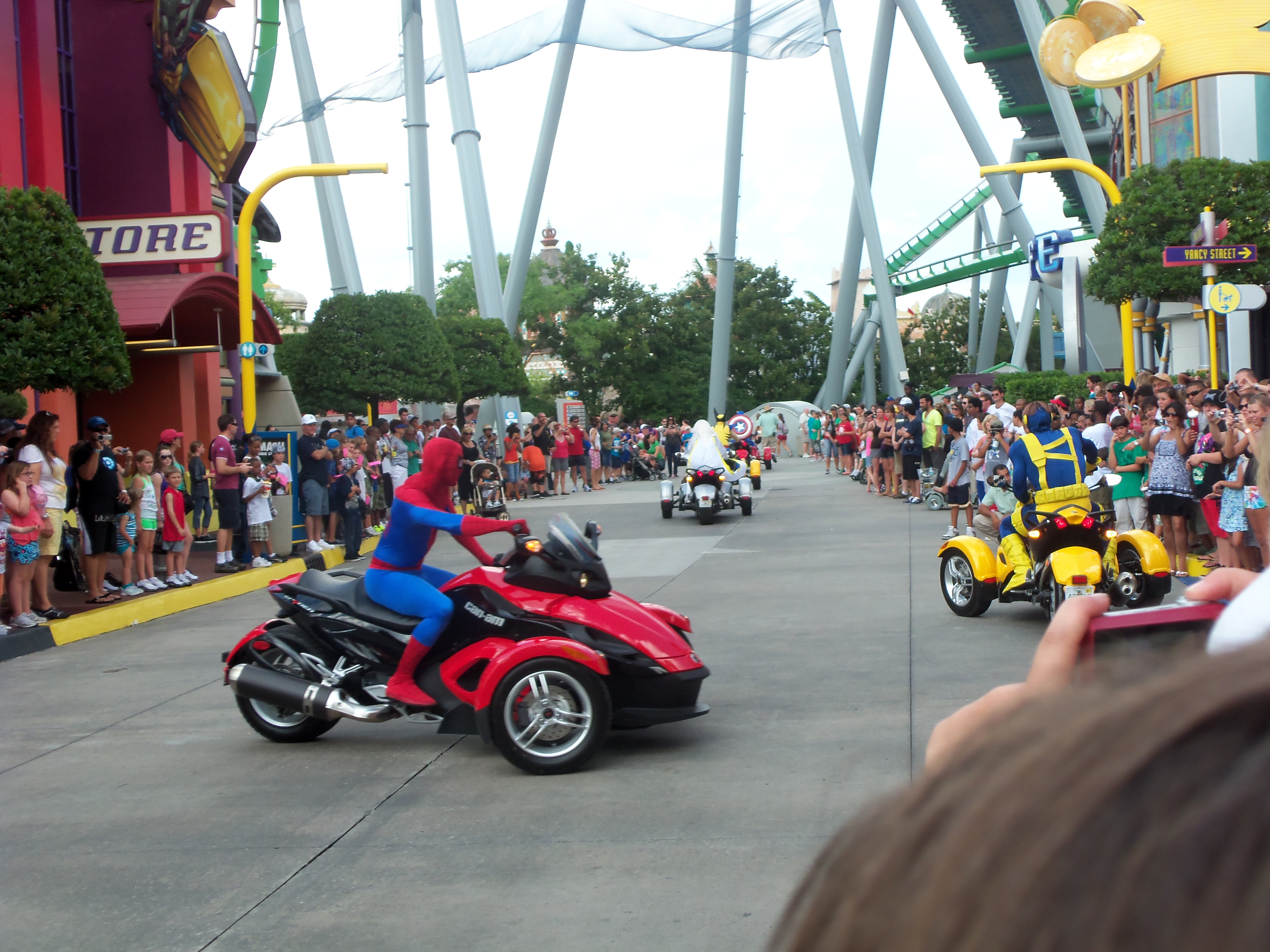 The daily superhero parade at Universal's Islands of Adventures (Orlando, FL).